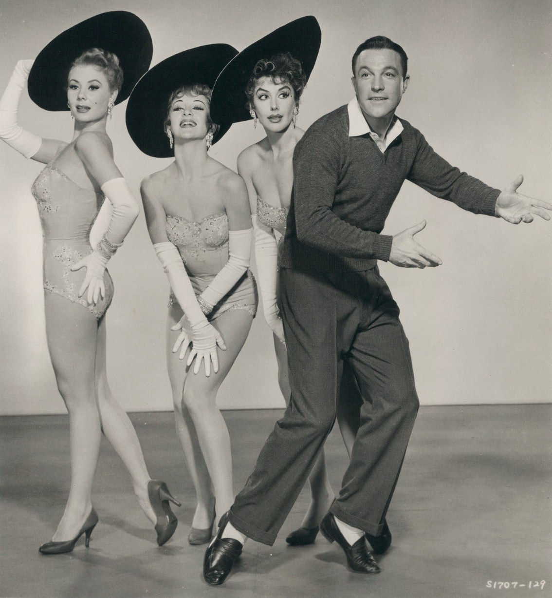 L. to R. : Mitzi Gaynor, Taina Elg, Kay Kendall & Gene Kelly in Les Girls - publicity still (cropped)